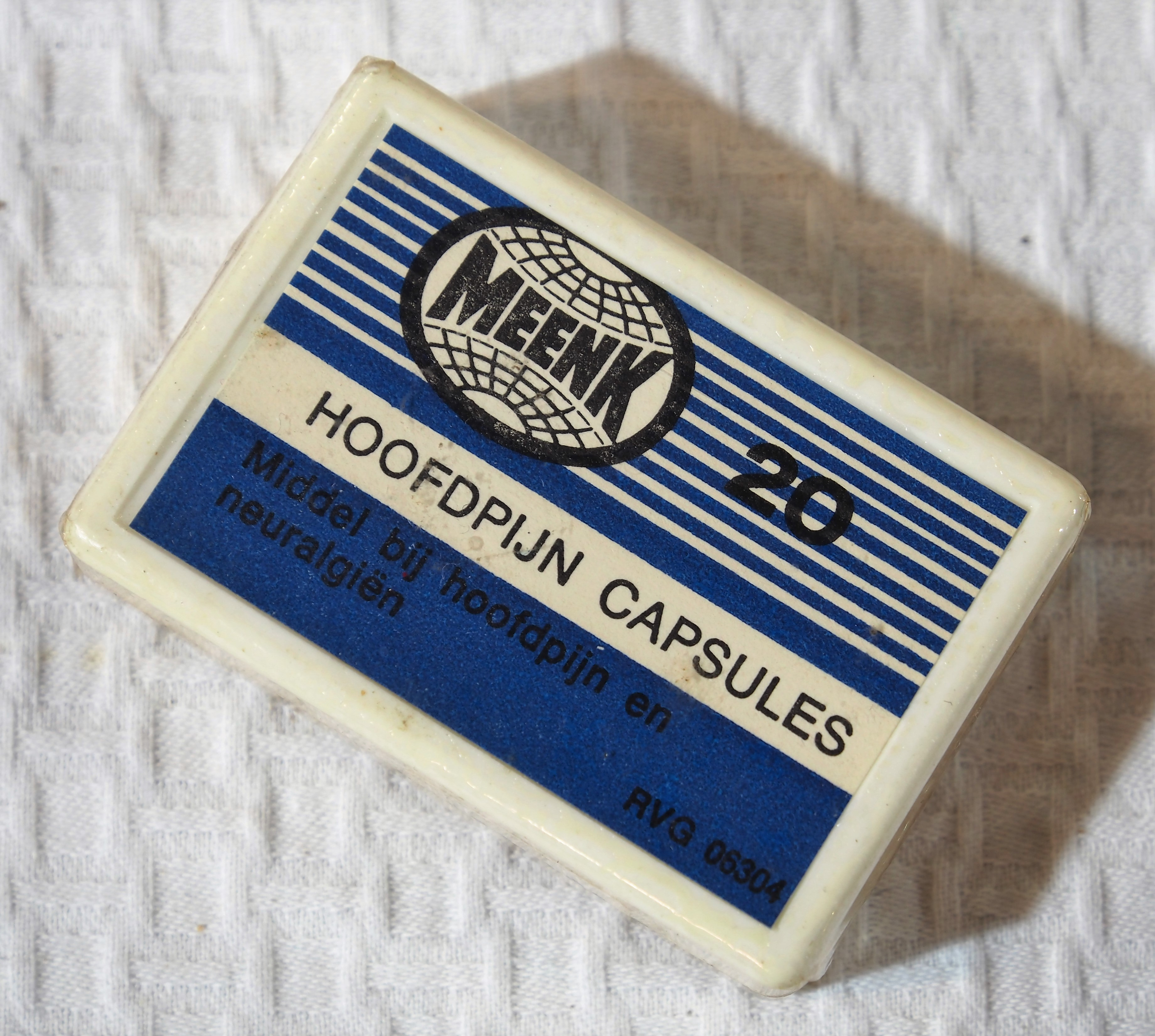 Old product that is not produced and not sold anymore for a very long time and the company does not exist anymore either.